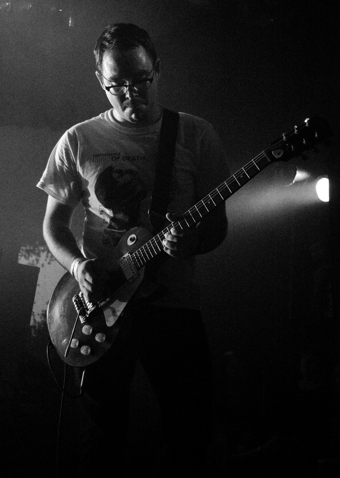 Kerry McCoy performing with Deafheaven in 2013.